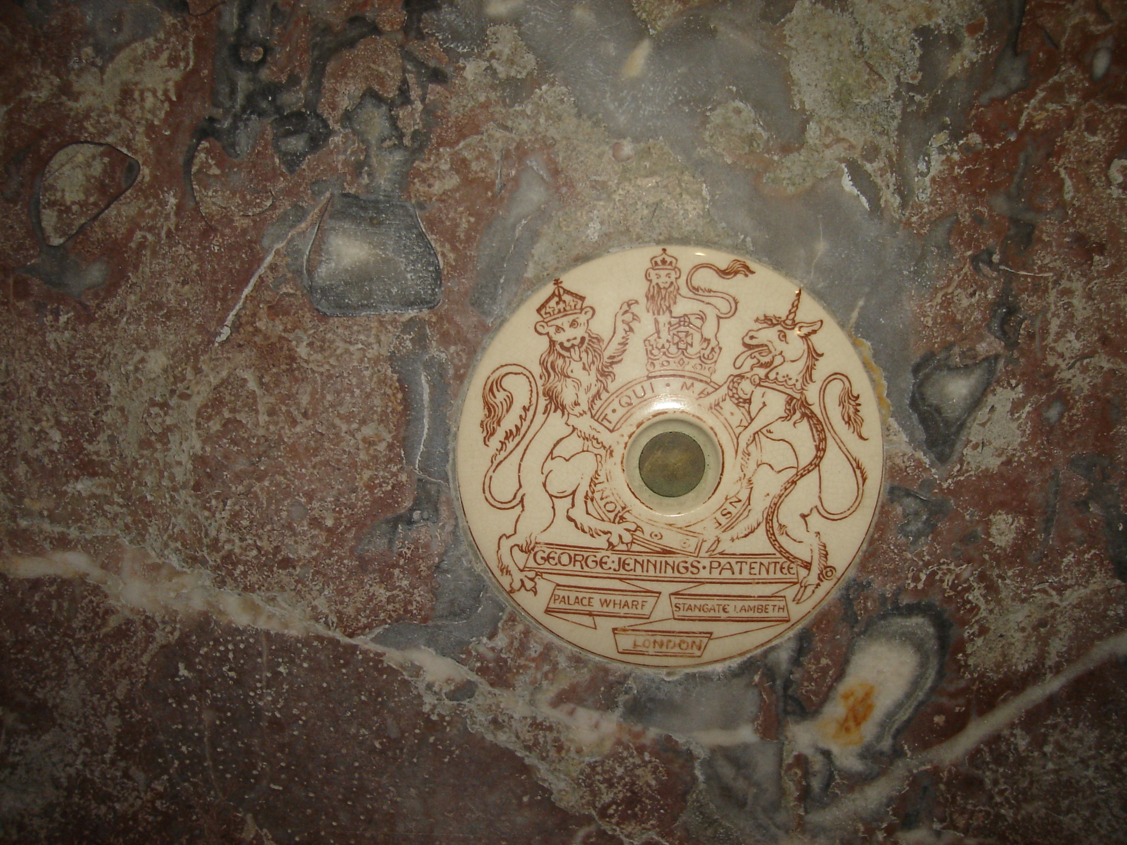 Victorian urinals at the Windermere hotel at Windermere. With the maker's name George Jennings